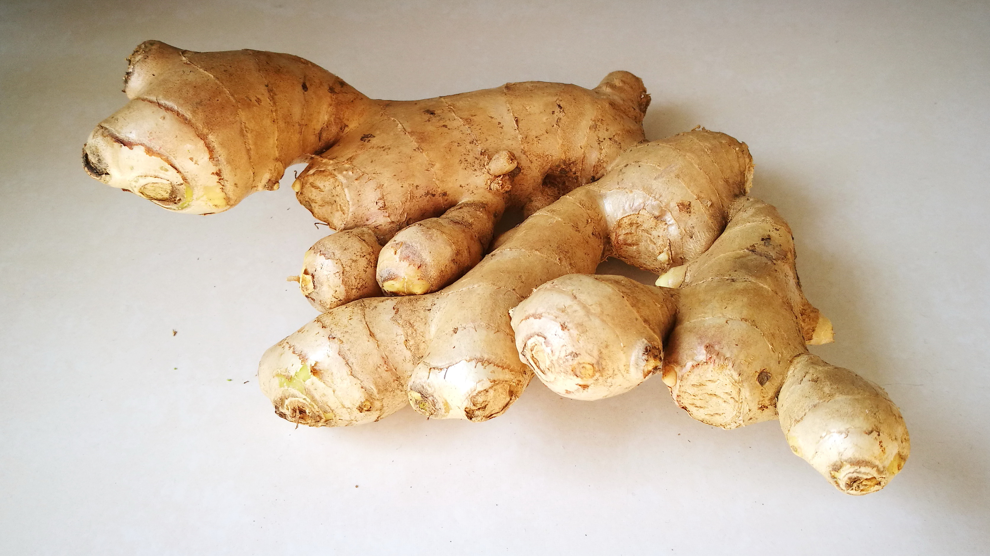 Ginger rhizome